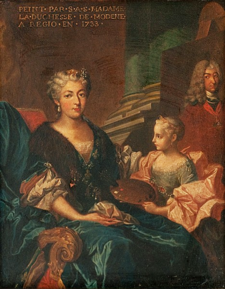 Charlotte Aglaé d'Orléans (future Duchess of Modena) in 1733 with her daughter overlooked by a portrait of her husband by then Hereditary Prince